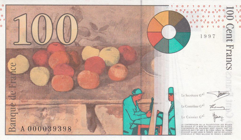 100 francs